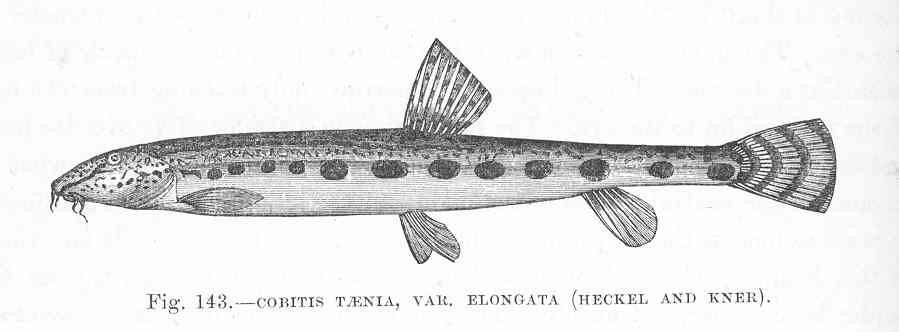 Cobitis taenia, var. Elongata (Heckel and Kner) Subject: Cobitis, Loaches Tag: Fish